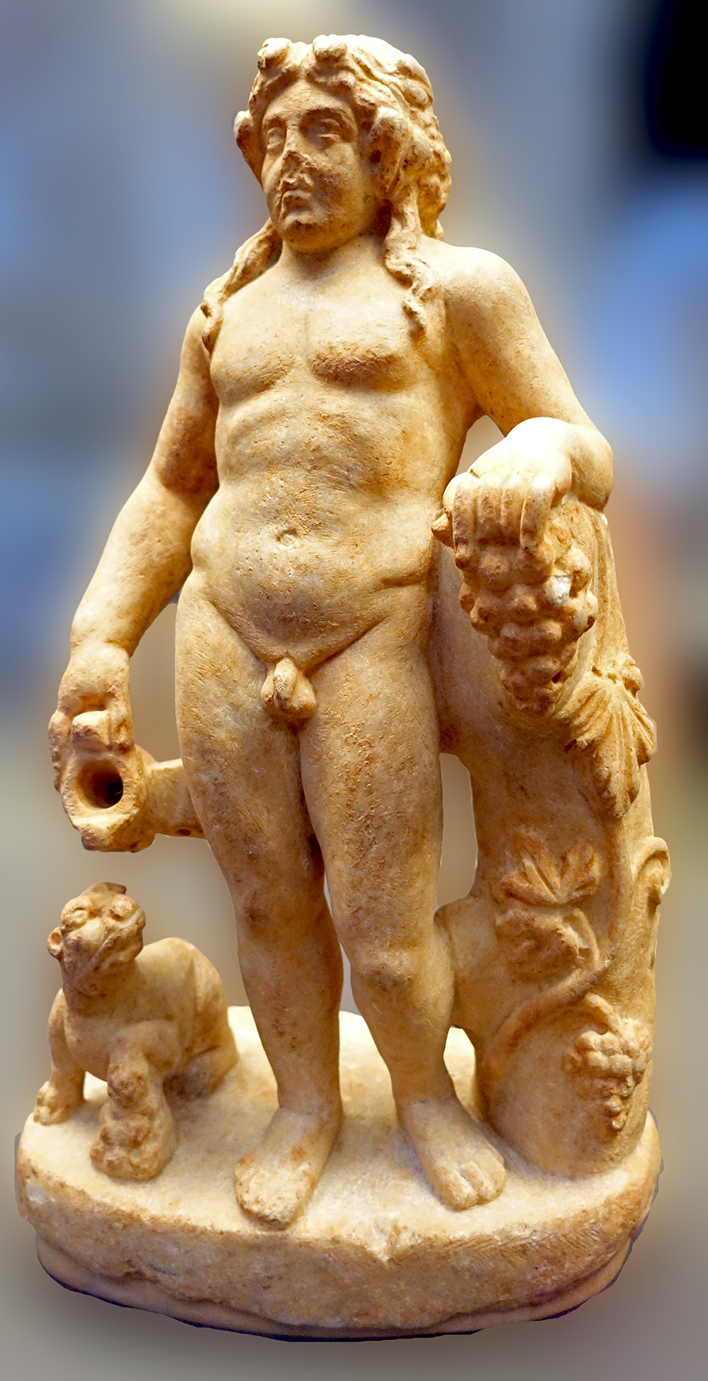 Bacchus marble statuette in British Museum, London.